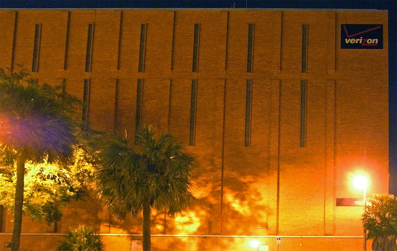 A Verizon Central Office in Lakeland, Florida.